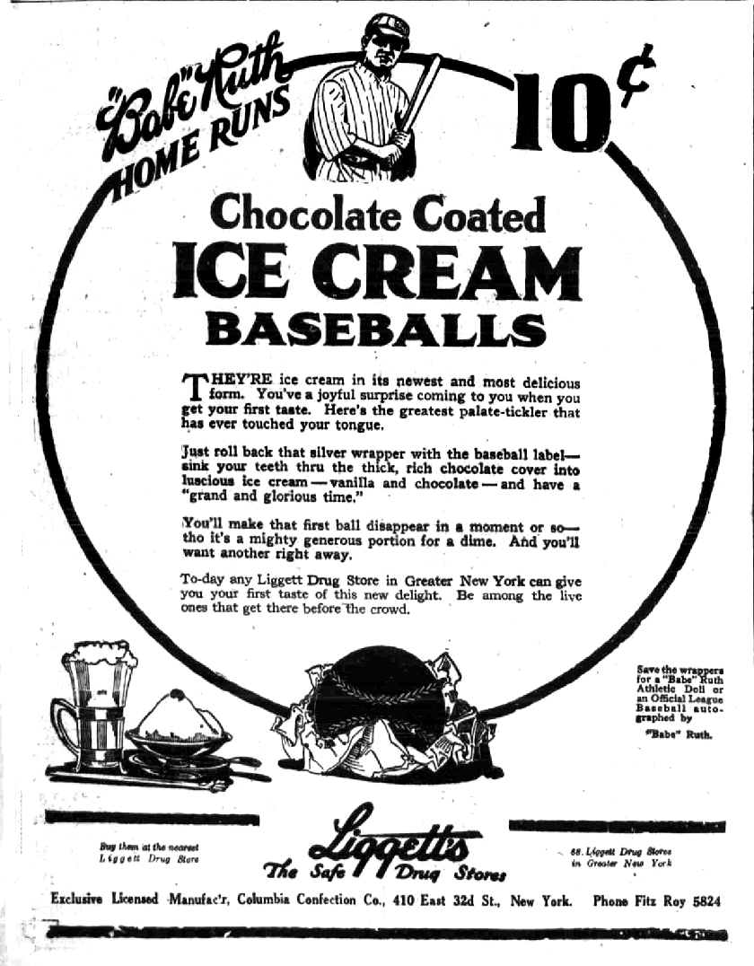 Newspaper ad for Babe Ruth Chocolate Coated Ice Cream Baseballs, available at a New York City drug store.